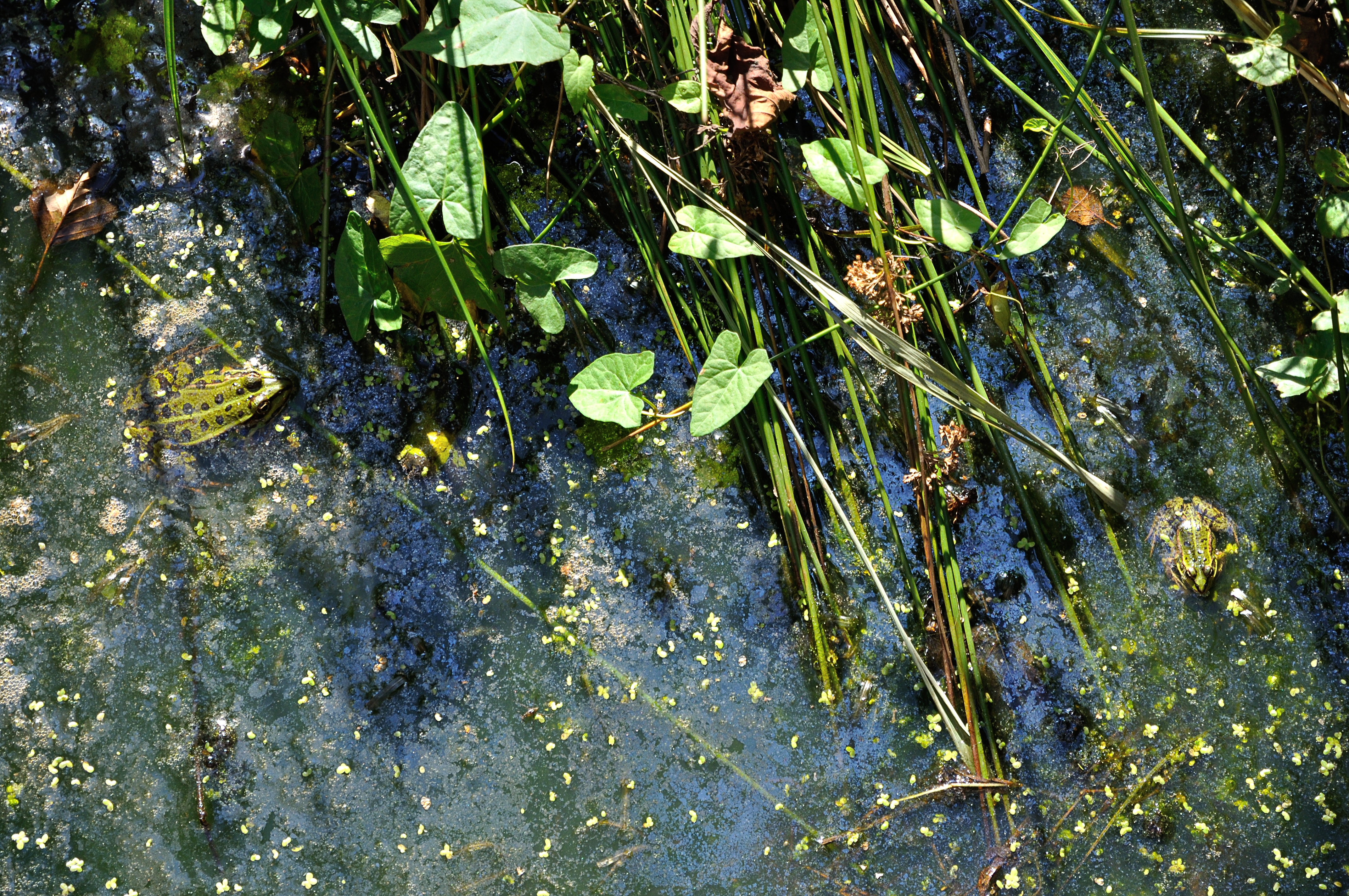 The term Green frog is ambiguous vernacular name which can designate several frog species of the family Ranidae among amphibians.